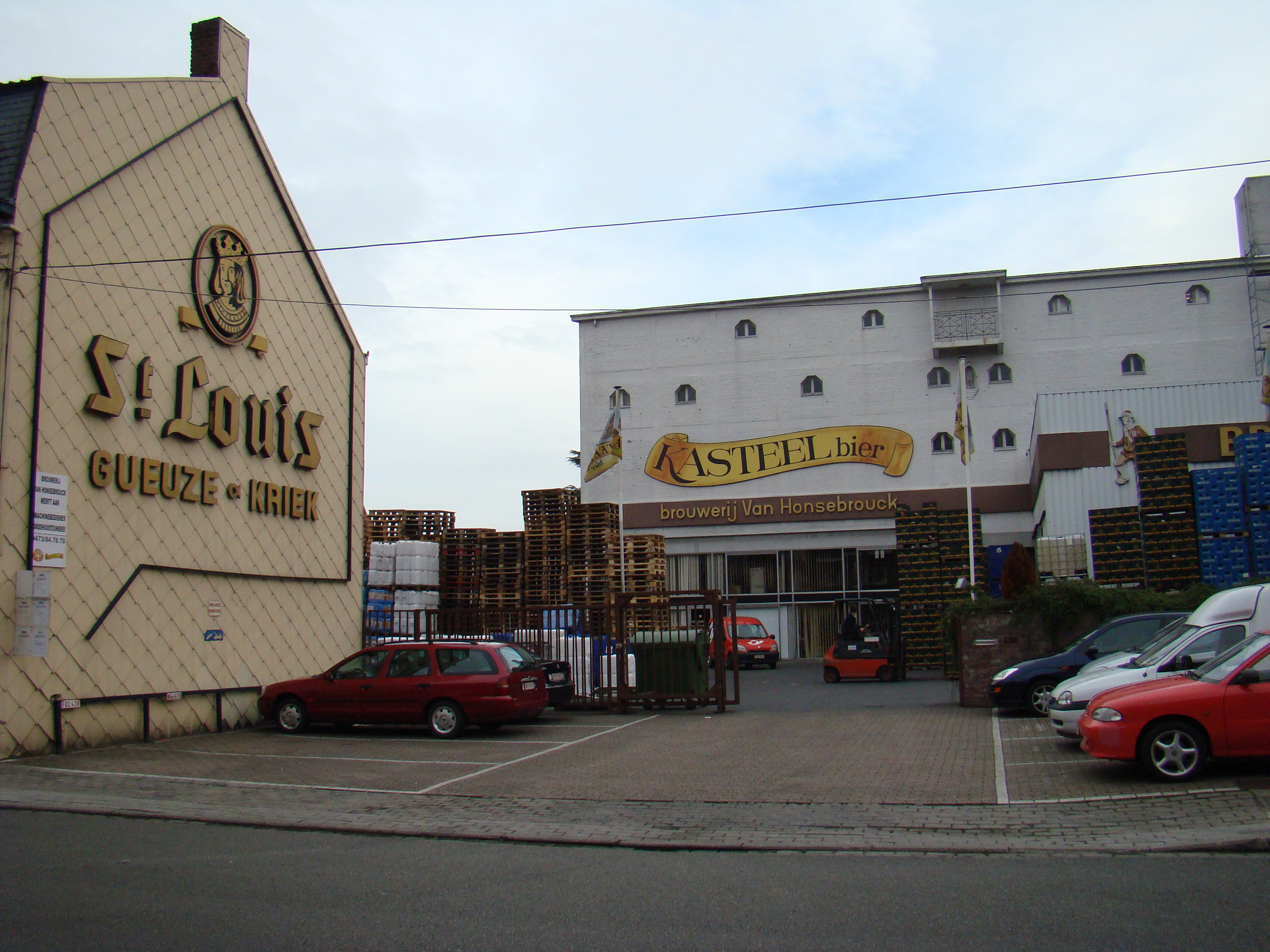 Brouwerij Van Honsebrouck Brewery (Brigand, Kasteelbier) Ingelmunster (West Flanders, Belgium)